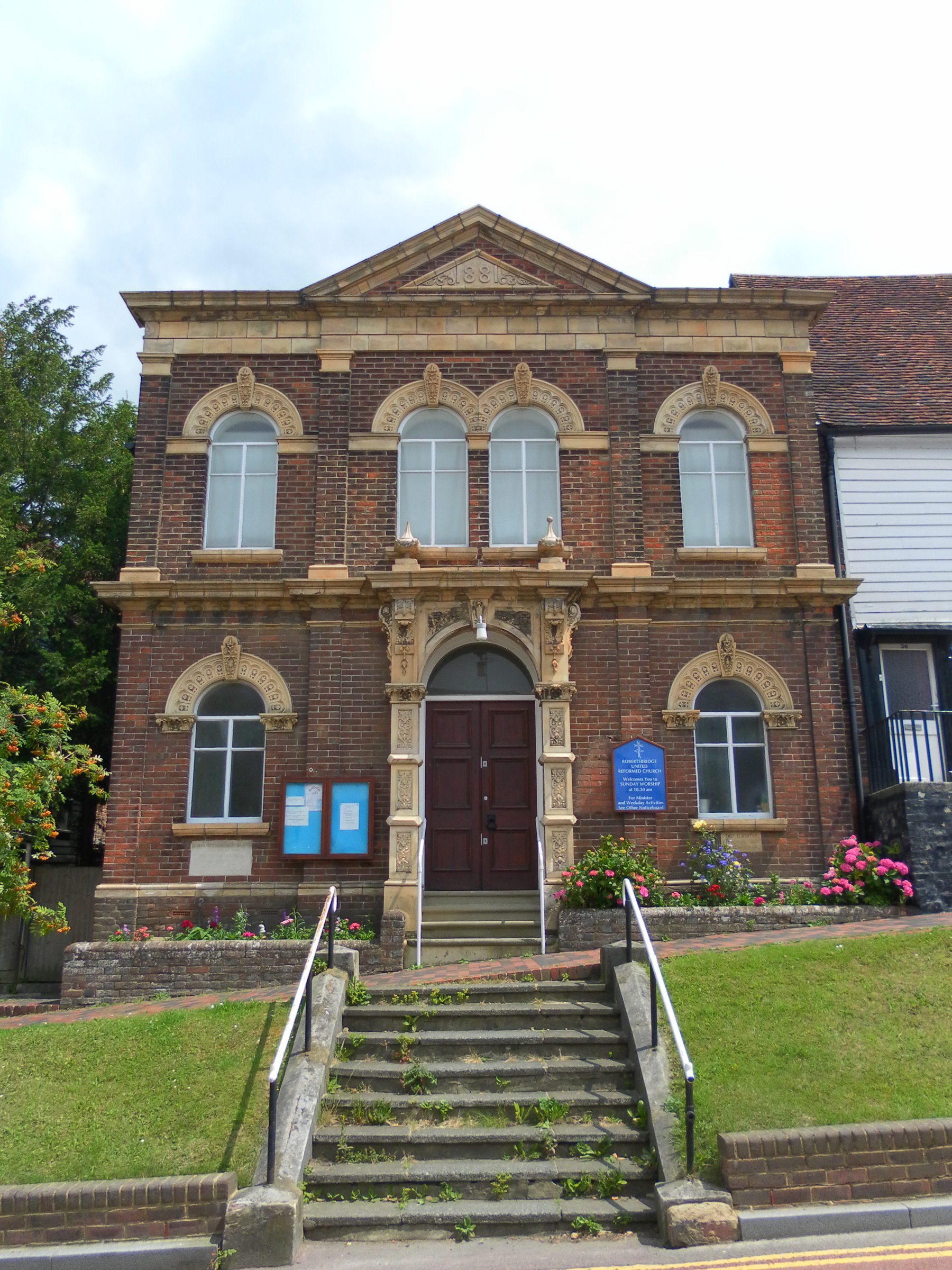 Robertsbridge United Reformed Church, High Street, Robertsbridge, Rother District, East Sussex, England. Designed in 1881 by Thomas Elworthy of St Leonards-on-Sea. Listed at Grade II by English Heritage (NHLE Code 1221451)